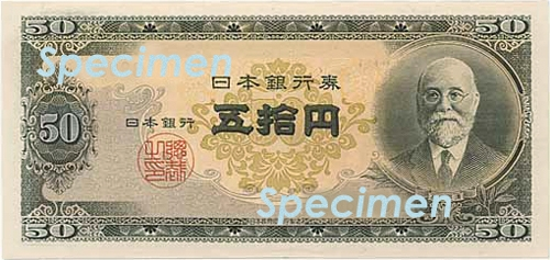 Series B 50 yen banknote. Portrait: Korekiyo Takahashi. First issued in 1951, issue suspended in 1958.